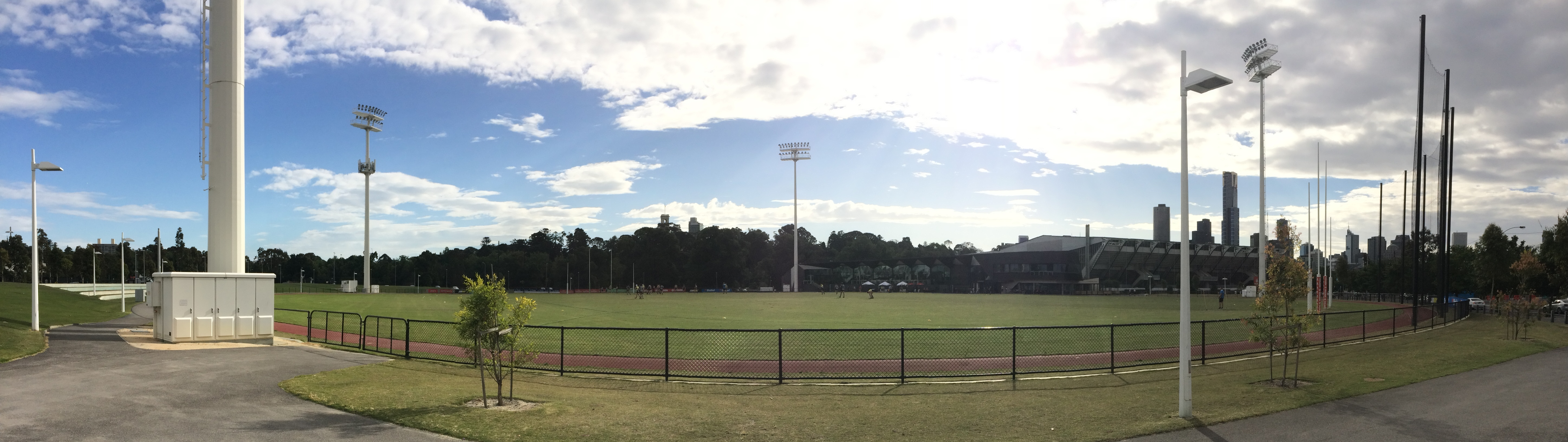 Panorama of Olympic Park Oval from the north east corner of ground